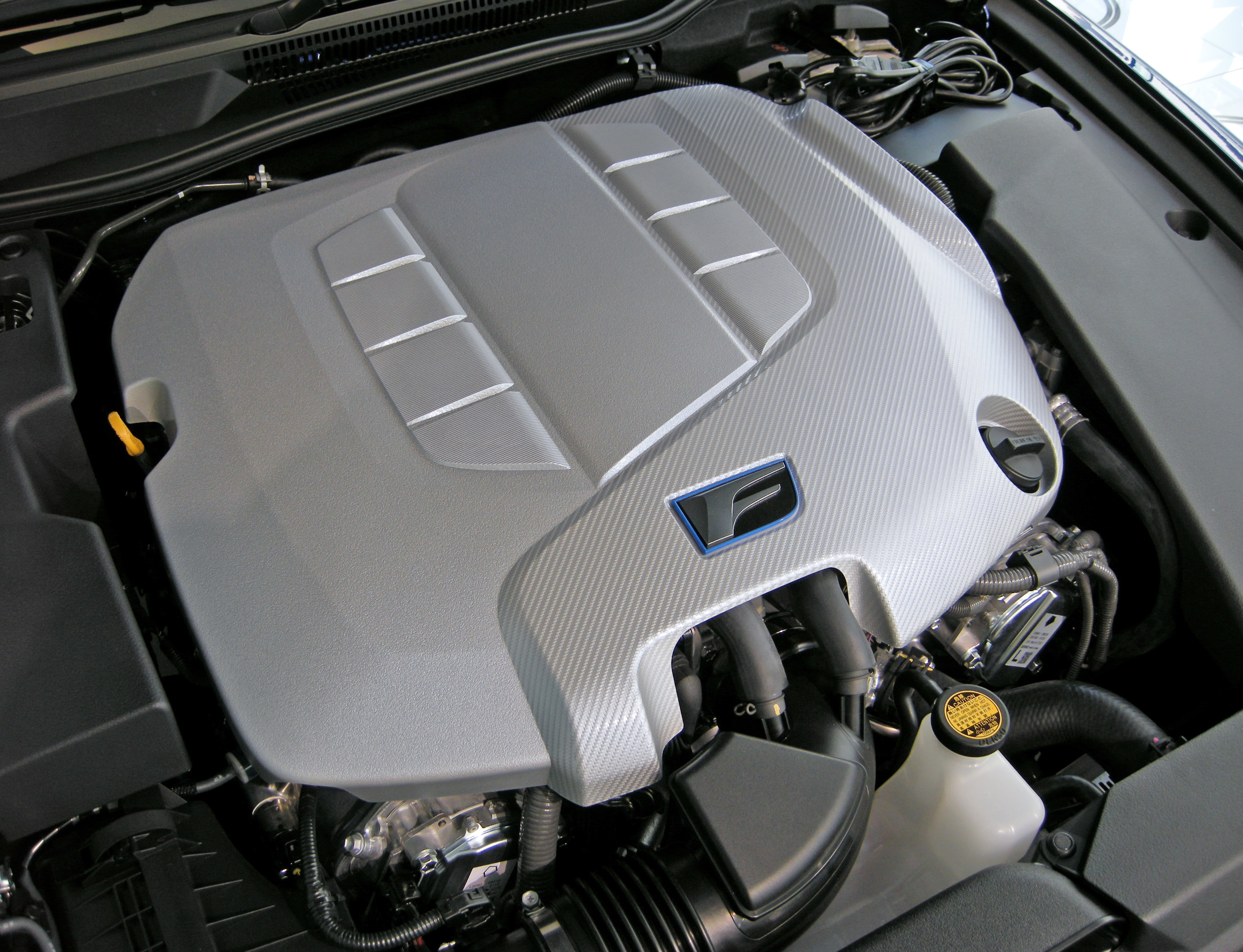 Toyota 2UR-GSE 5.0L V8 DOHC D-4S VVT-iE Engine inatalled in Lexus IS F